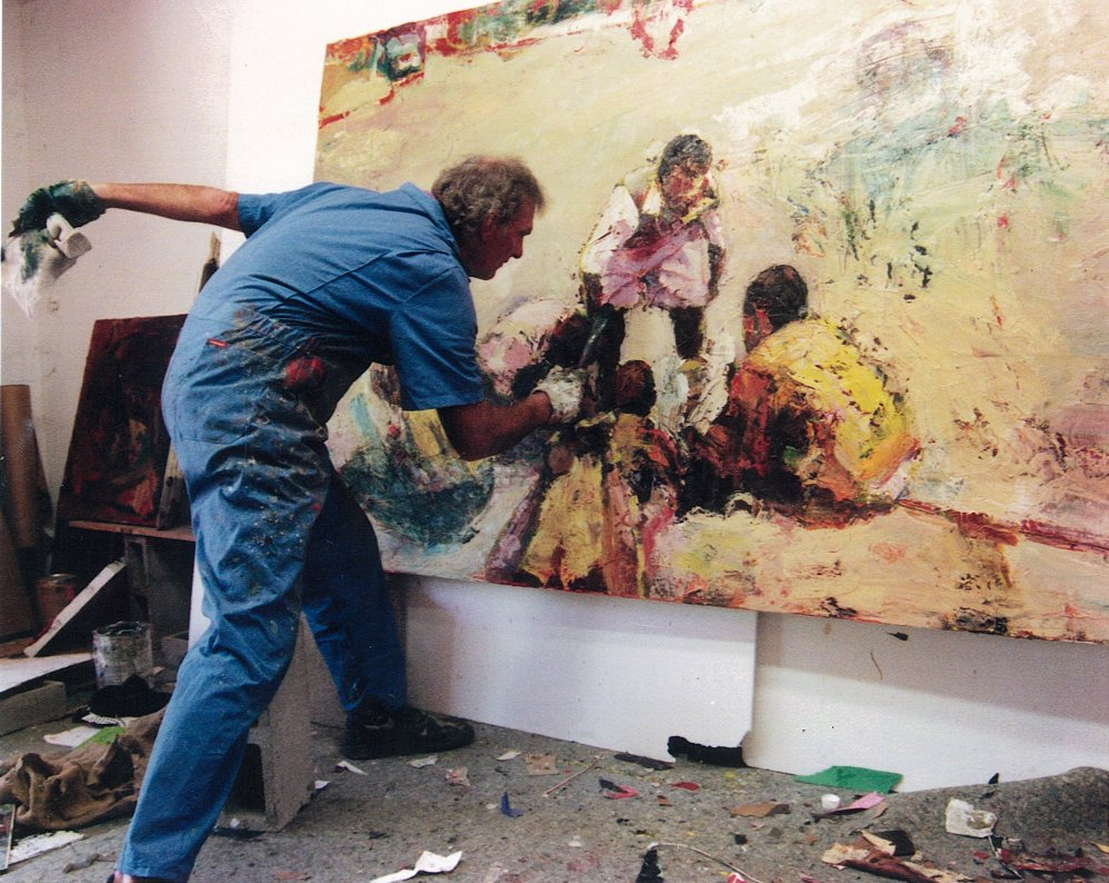 Dennis Hare at work in his studio, Mentone ,California